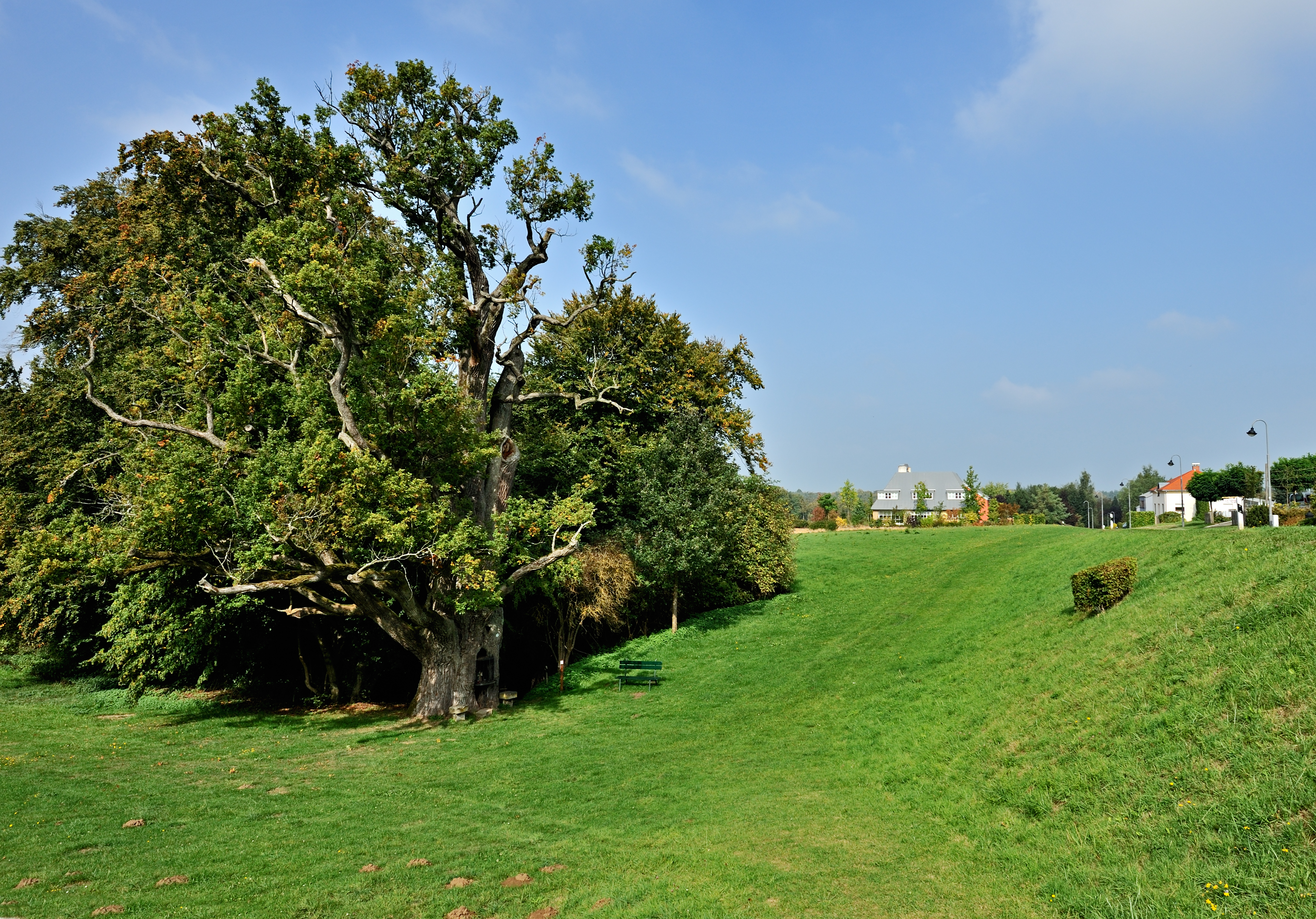 Remarkable, ca 500 years old oak in Hersberg, Bech, Luxembourg. Tree cavity with a statue of the Madonna. A pilgrimage site.